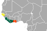 yellow - Temminck`s red colobus area (Procolobus temminckii), green - western red colobus (P. badius), red - Miss Waldron's red colobus (P. waldronae)